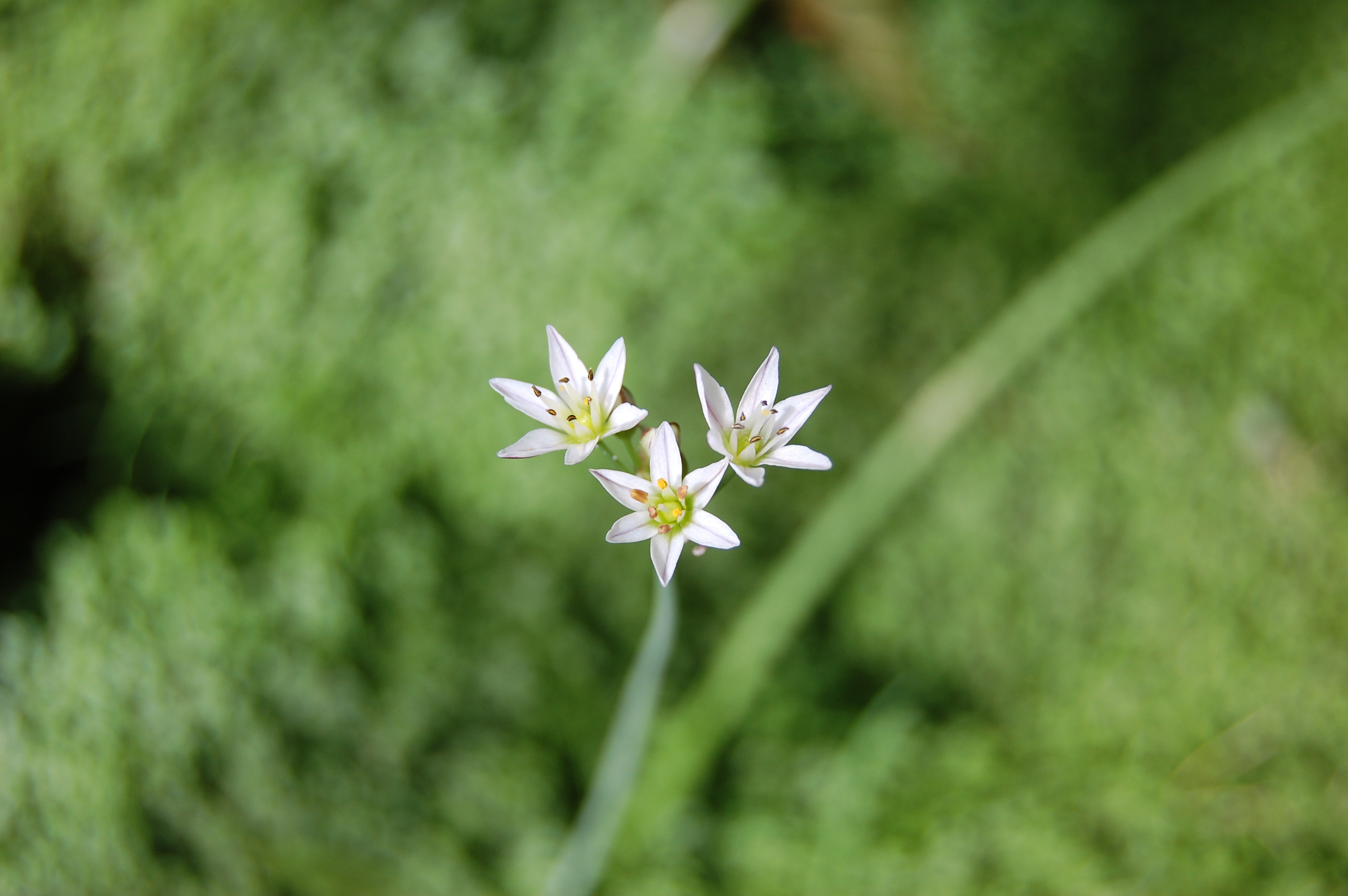 Nothoscordum bivalve (L.) Britton crowpoison